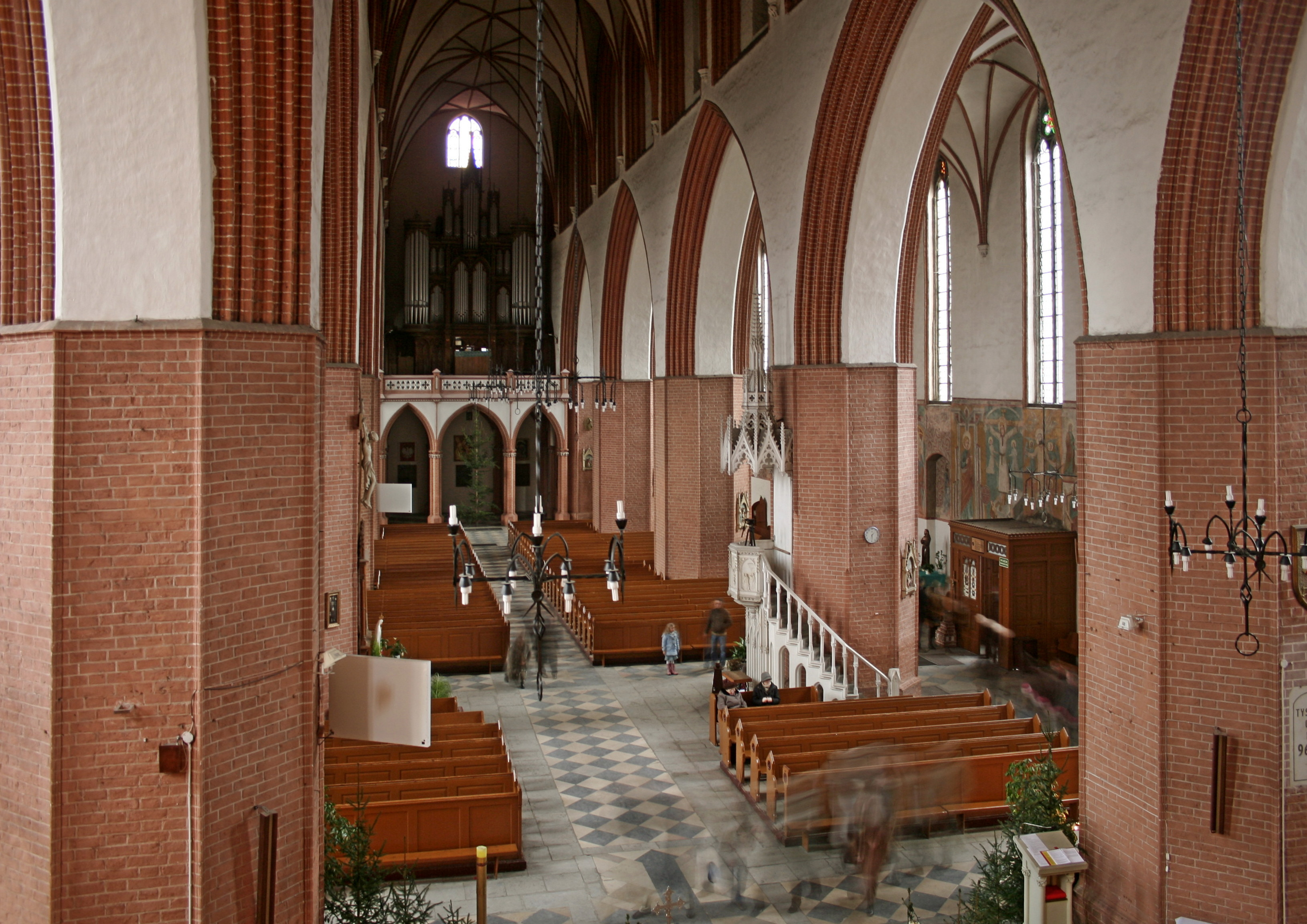 Kwidzyn Cathedral, seen from the upper church